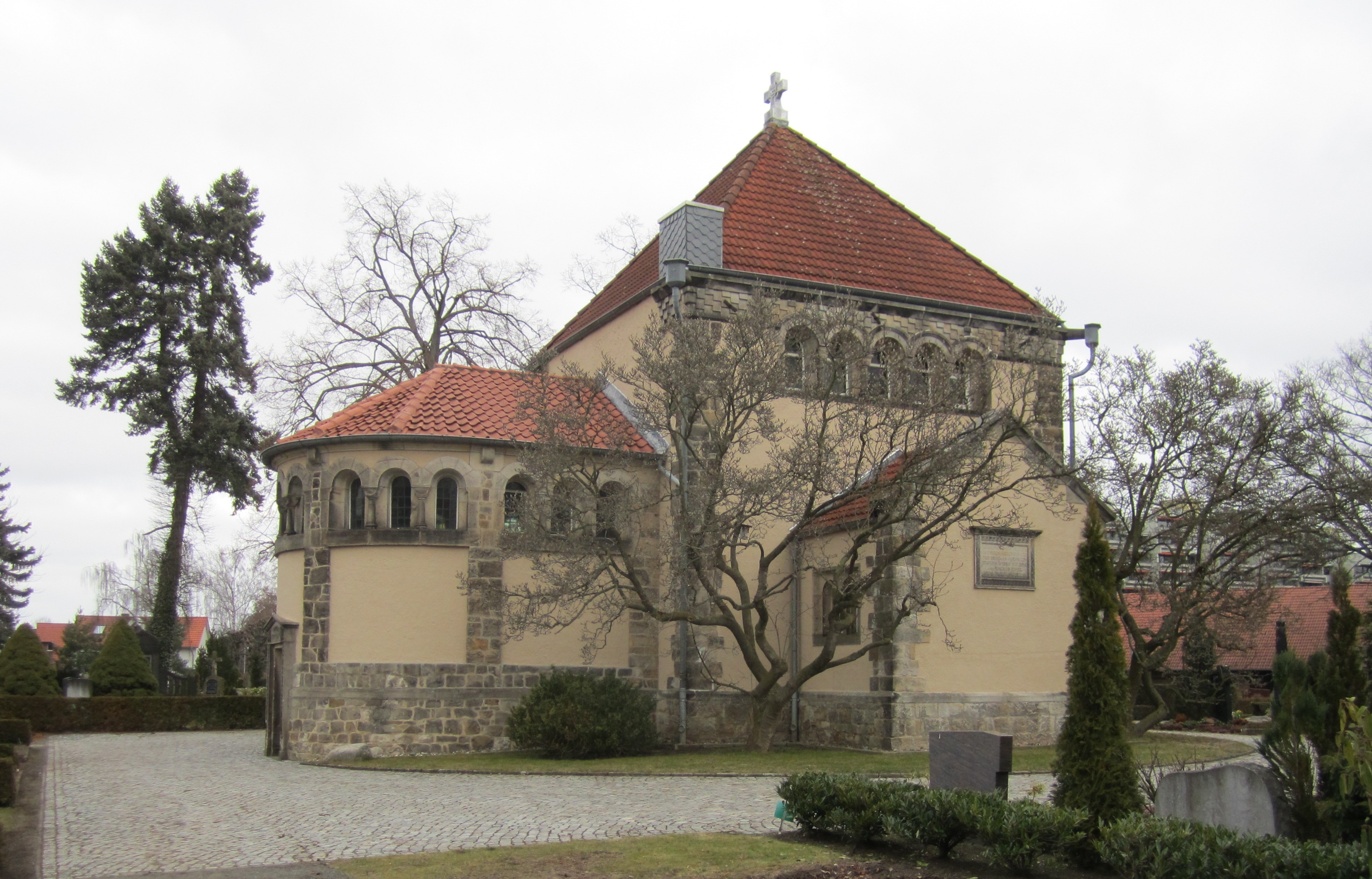 Chapel of the Michaelis cemetery in Hanover-Ricklingen.